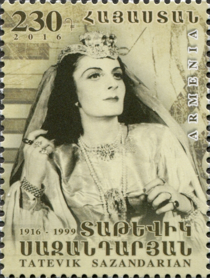 100th Anniversary of Tatevik Sazandarian